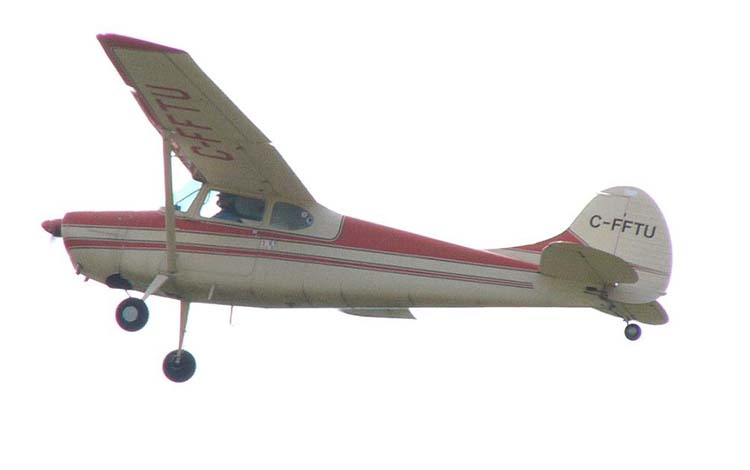 Cessna 170B (C-FFTU)